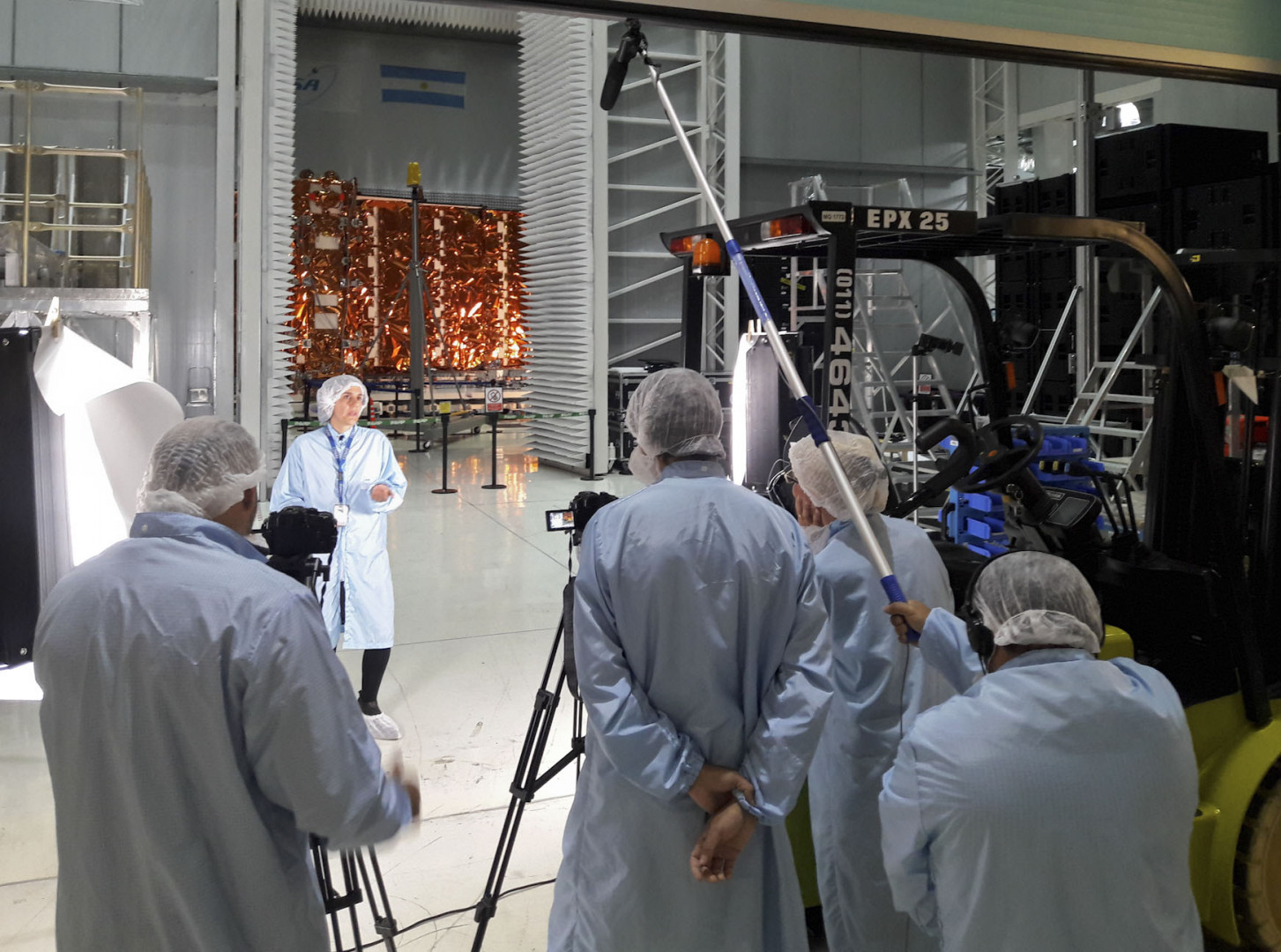 Josefina Peres, from CONAE, being interviewed by TECtv during the recording of the ”SAOCOM 1A - Alto en el cielo” documentary.